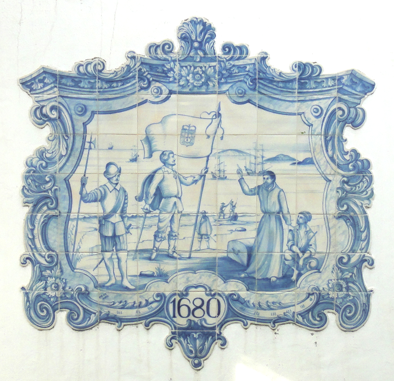 Tile panel depicting the foundation of Colonia del Sacramento. Portuguese Museum.